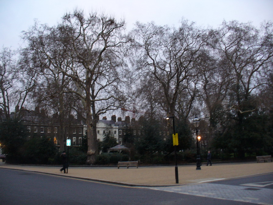 London - Bedford Square